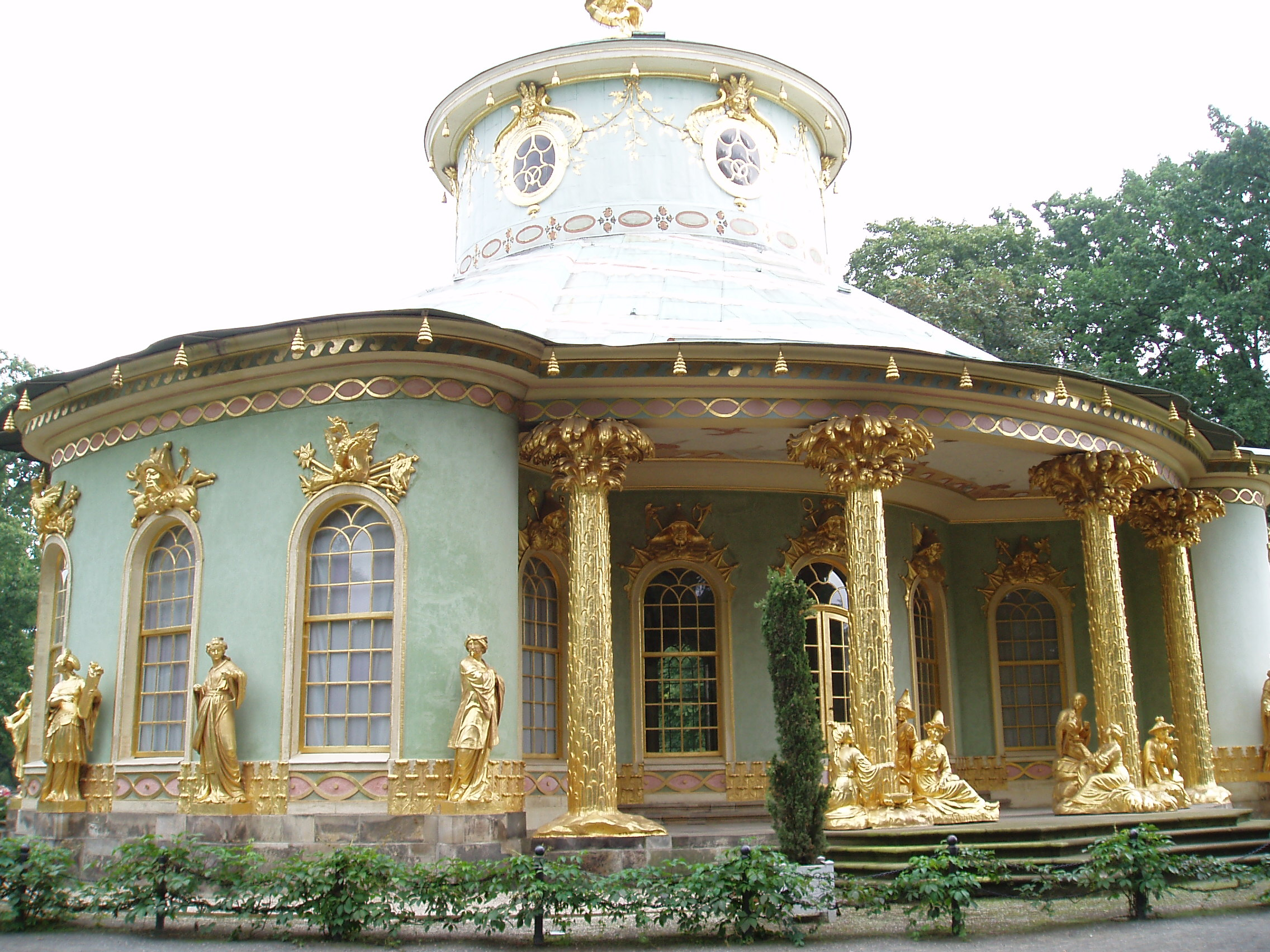 Sanssouci - the Palace and surrounding Park built in Potsdam, Germany by Frederick the Great